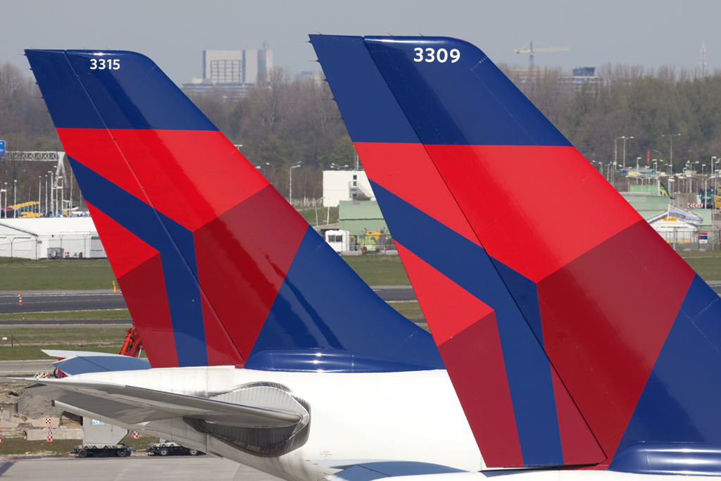 Tailfins of 2 Delta Air Lines Airbus A330 at Schiphol Airport.